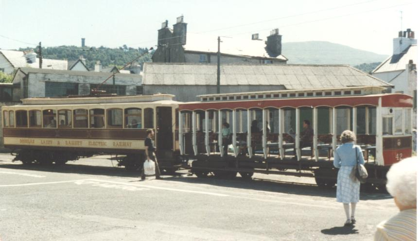 Ramsey Station, Manx Electric Railway, with passengers boarding for Douglas